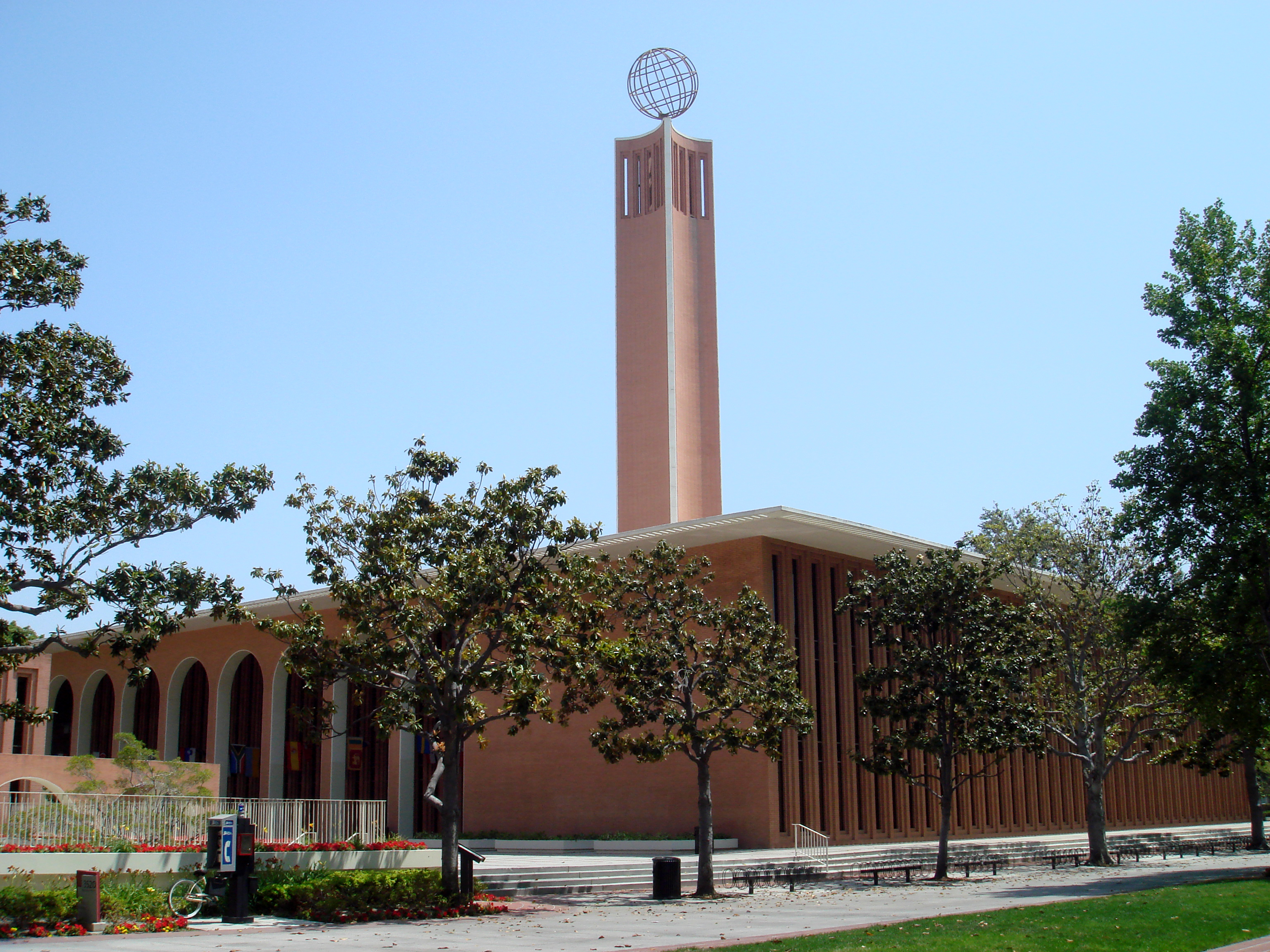 The Center for International and Public Affairs building at the University of Southern California in Los Angeles, California